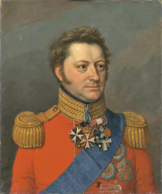 Portrait of Frederick William Charles Louis of Hesse-Philippsthal-Barchfeld